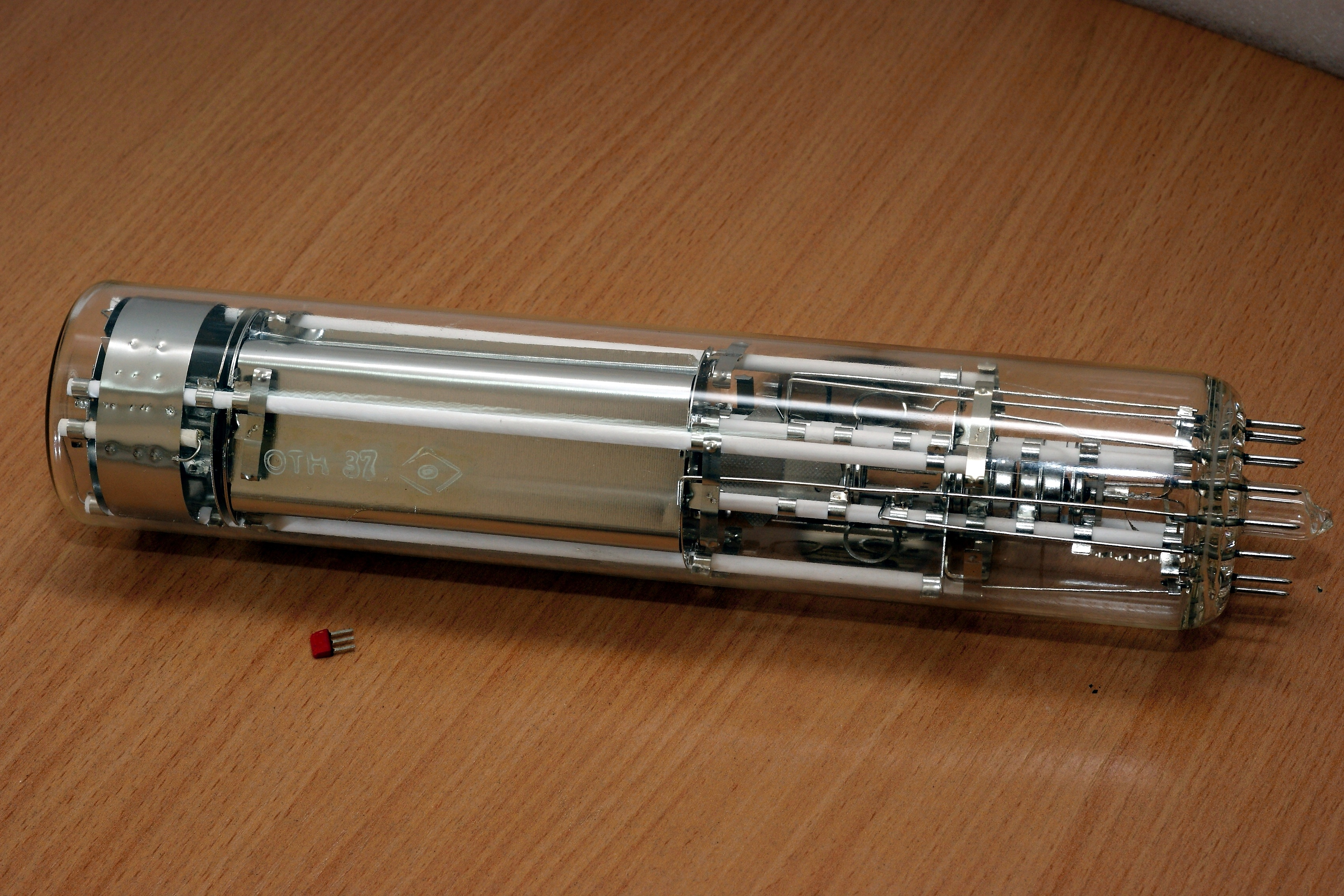 The Soviet 'functional' (i.e. computing) LF2 cathode ray tube is designed to compute (x-y)/(x+y) ratio of two inputs (however, with a large error margin). The CRT was used in target selection and tracking hardware of Soviet air defense weaponry.